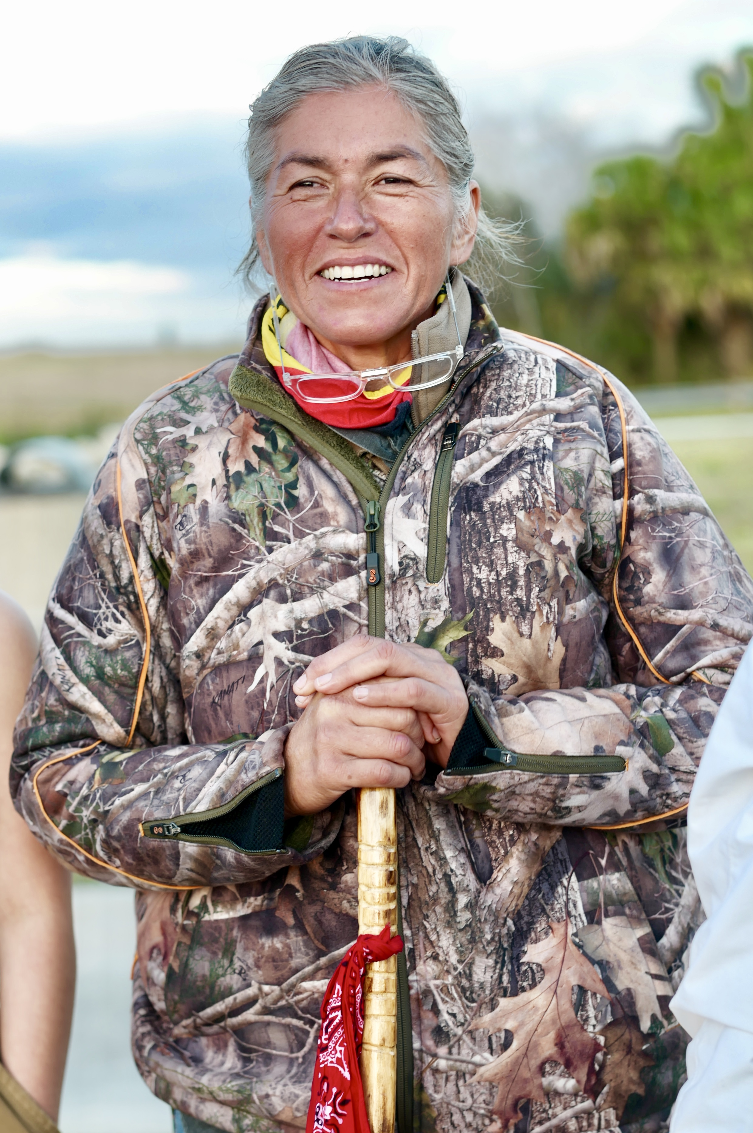 Betty Osceola at Lake Okeechobee, Florida, 2019. Photo by Lisette Morales.